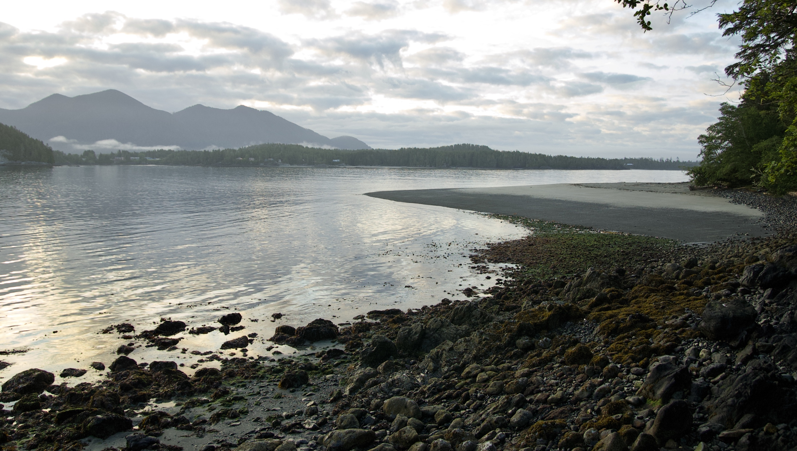 Low tide in Clayoquot Sound at sunrise